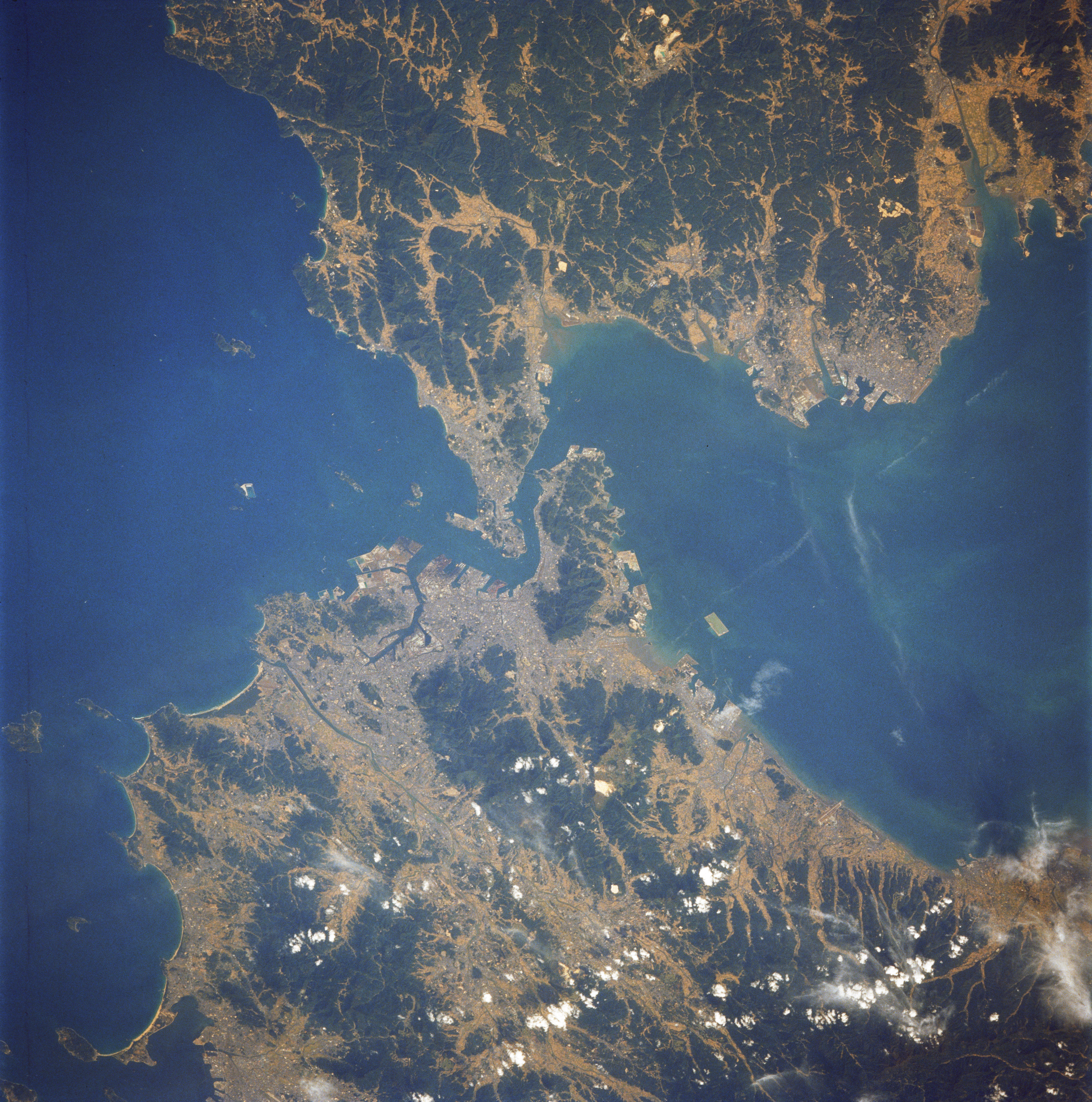 The Kanmon straits from space, with Honshū (the City of Shimonoseki) on the top and Kyushū (the City of Kita-Kyushū) on the bottom.